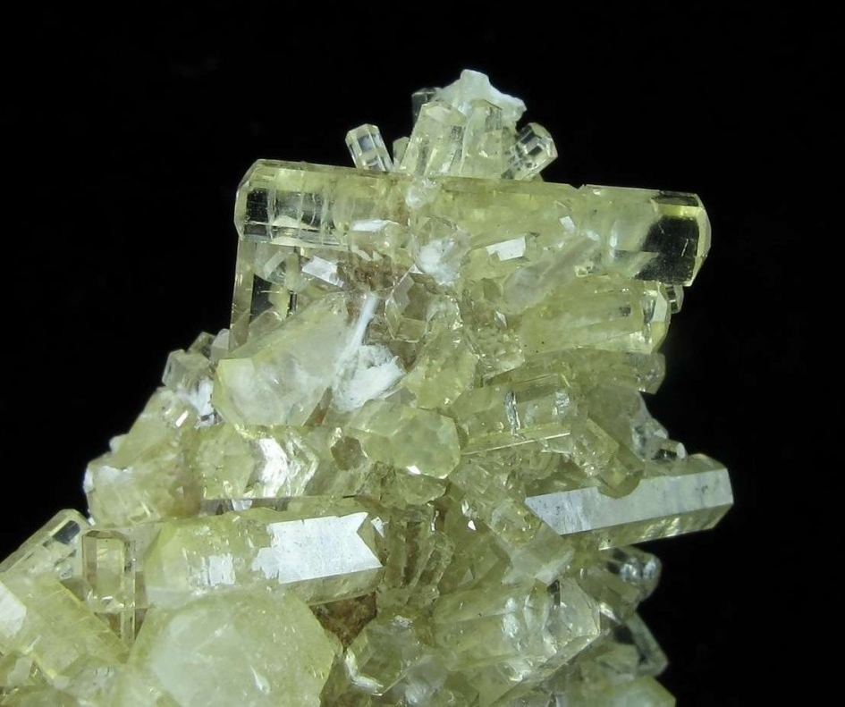 Thaumasite Locality: N'Chwaning I Mine, N'Chwaning Mines, Kuruman, Kalahari manganese fields, Northern Cape Province, South Africa (Locality at ) Size: 5.6 cm x 3.5 cm x 2.0 cm A superb cluster of gemmy, hexagonal Thaumasite crystals on matrix. The luster and gemminess is exceptional. The largest prismatic crystals have an amazing size range of 1.4 - 2.1 cm, while most average a still-impressive 0.5 cm, and they generously cover the matrix. This rare gem species is related to Ettringite and Sturmanite. Small bits of white xonotlite are in association. Very aesthetic and likely from the great find of 2005.